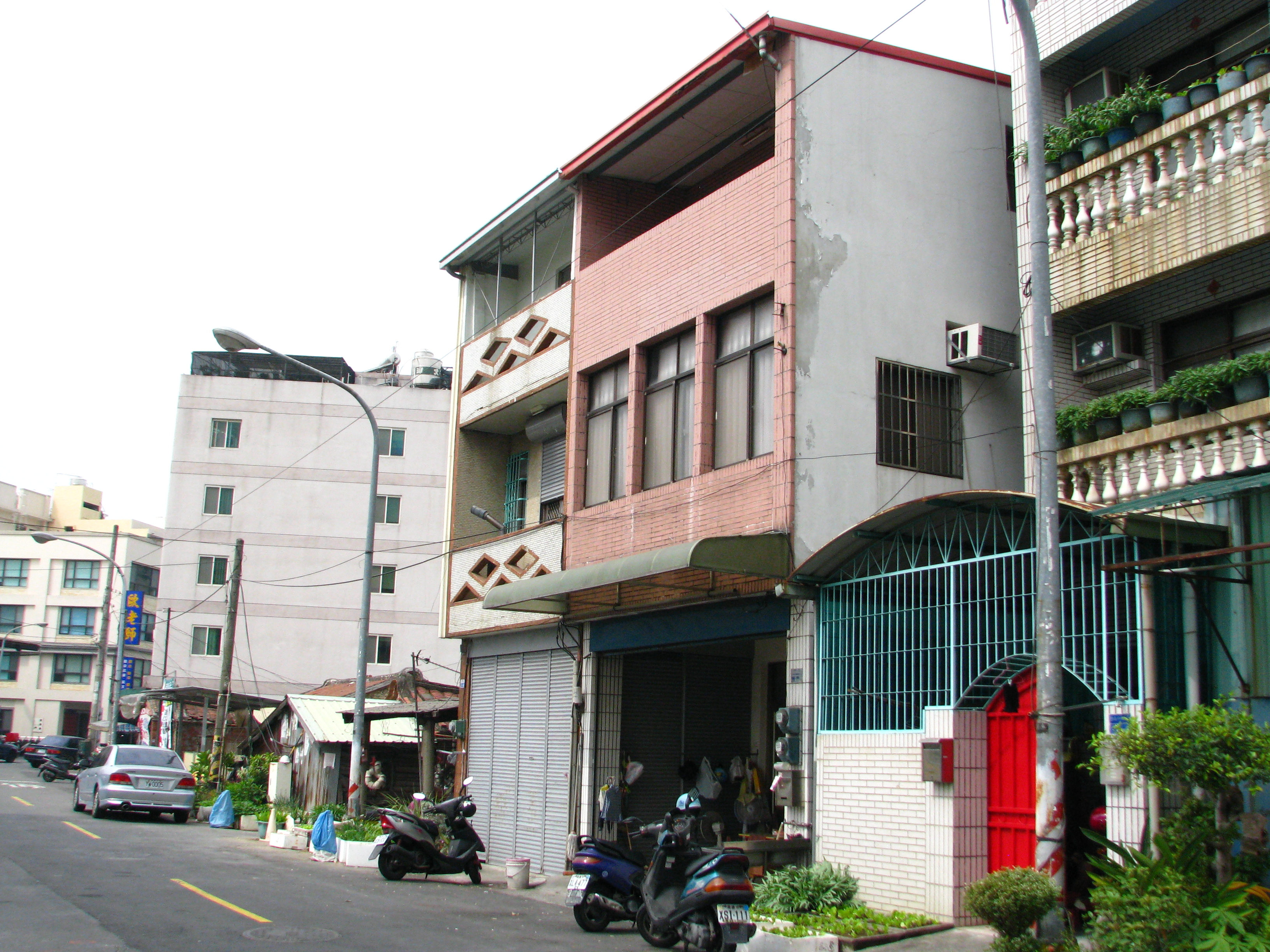 A old place name in Sanmin District, Kaohsiung, Taiwan.